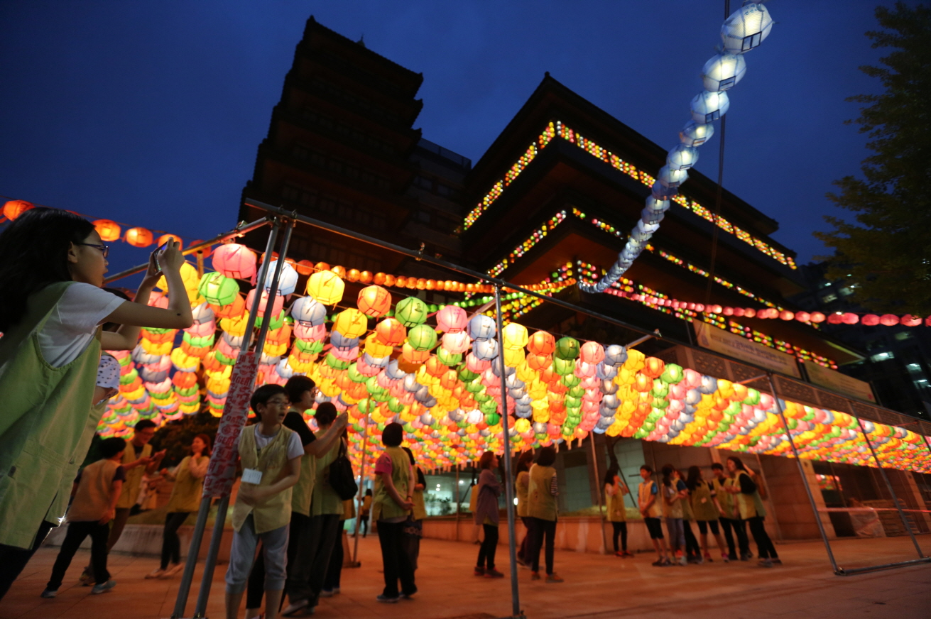 InternationalSeonCenter_1